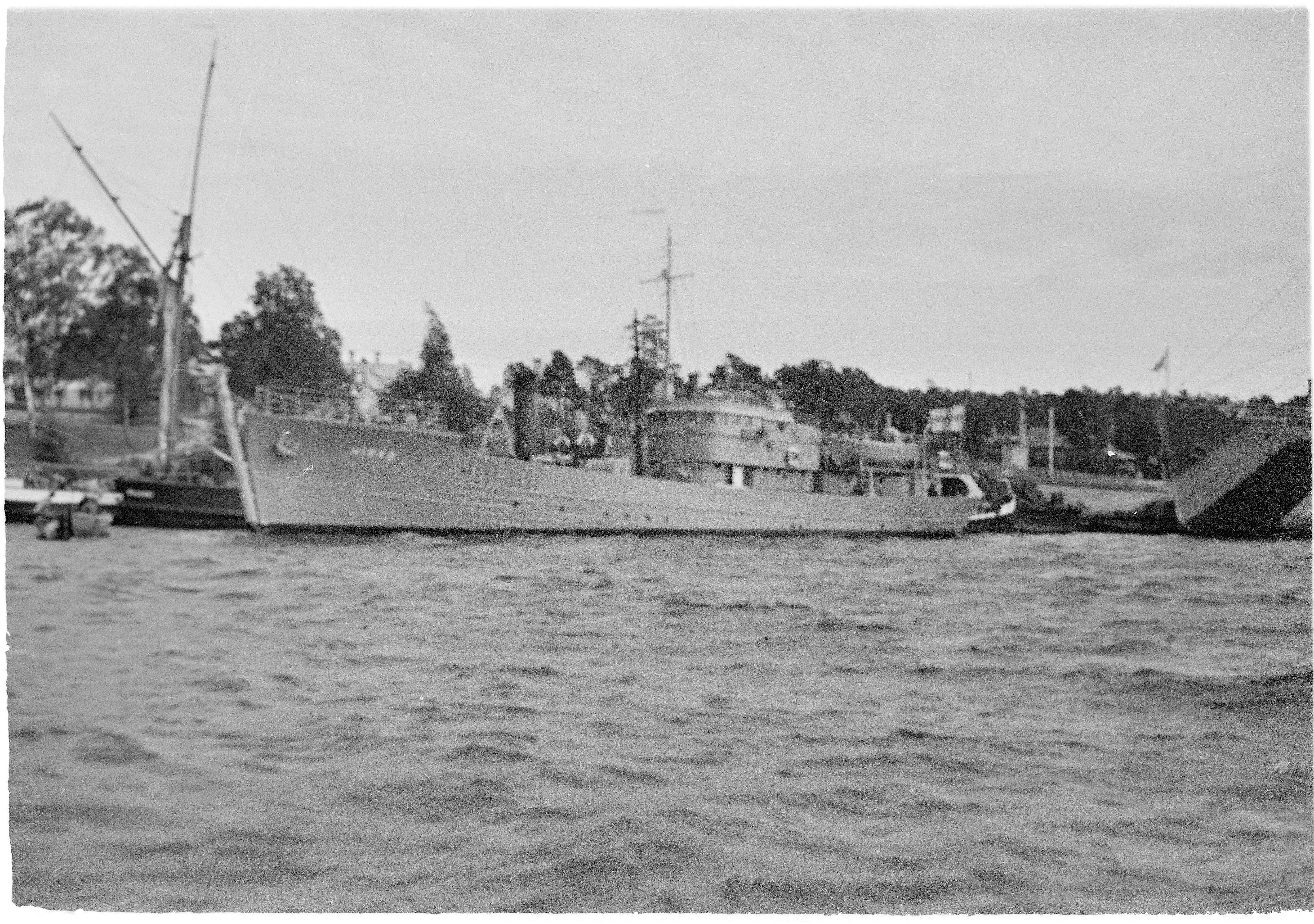 "The marine pilots' duties at Kobba Klintar: The escort ship Uisko in port". Picture by Fenrik L. Zilliacus.